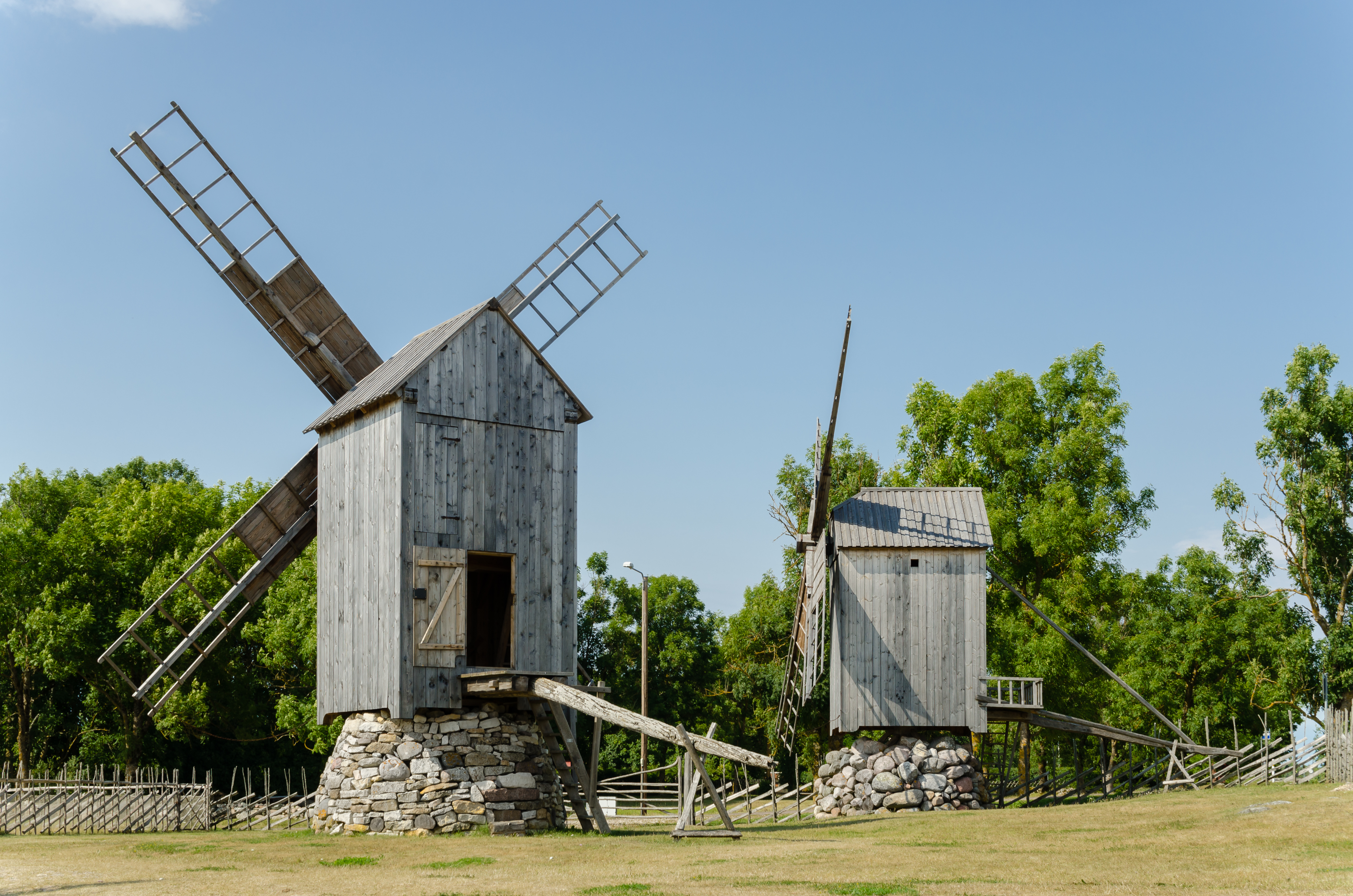 Windmills in Angla, Saaremaa, Estonia.